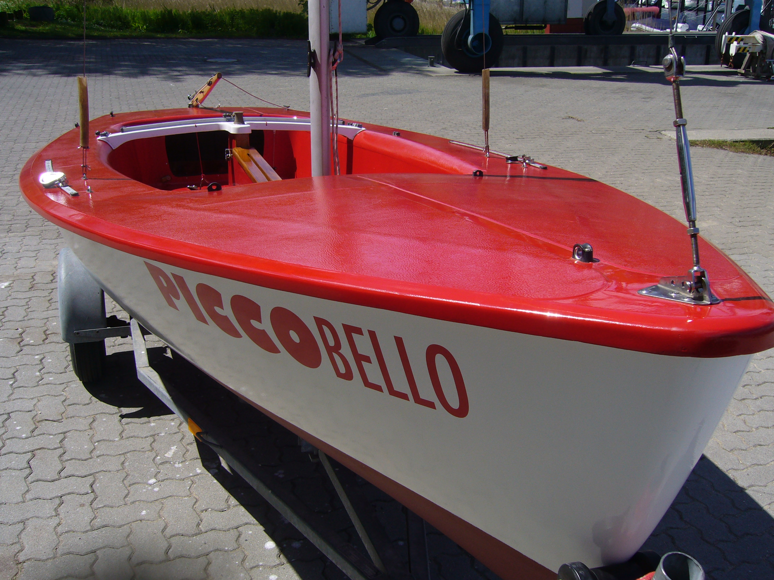 Herzjolle PICCObello Flensburg 2010